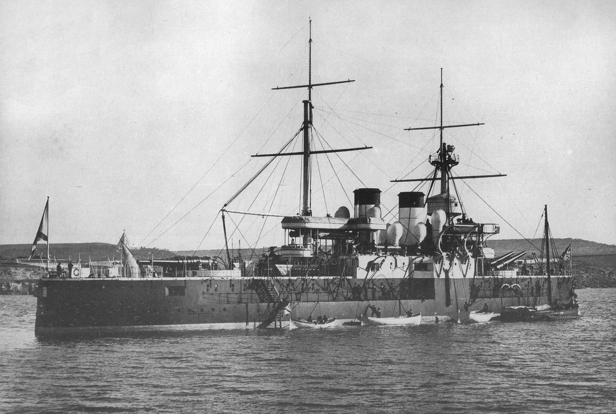 The Imperial Russian battleship Dvenadtsat' Apostolov.